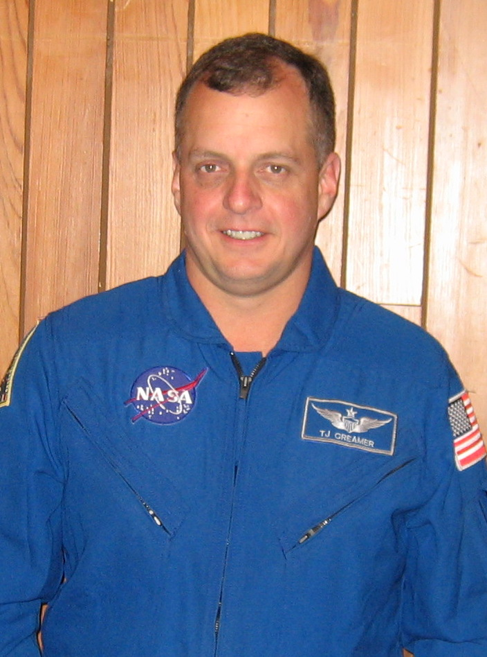 Timothy John Creamer, visit at the CJD Christophorusschule Königswinter